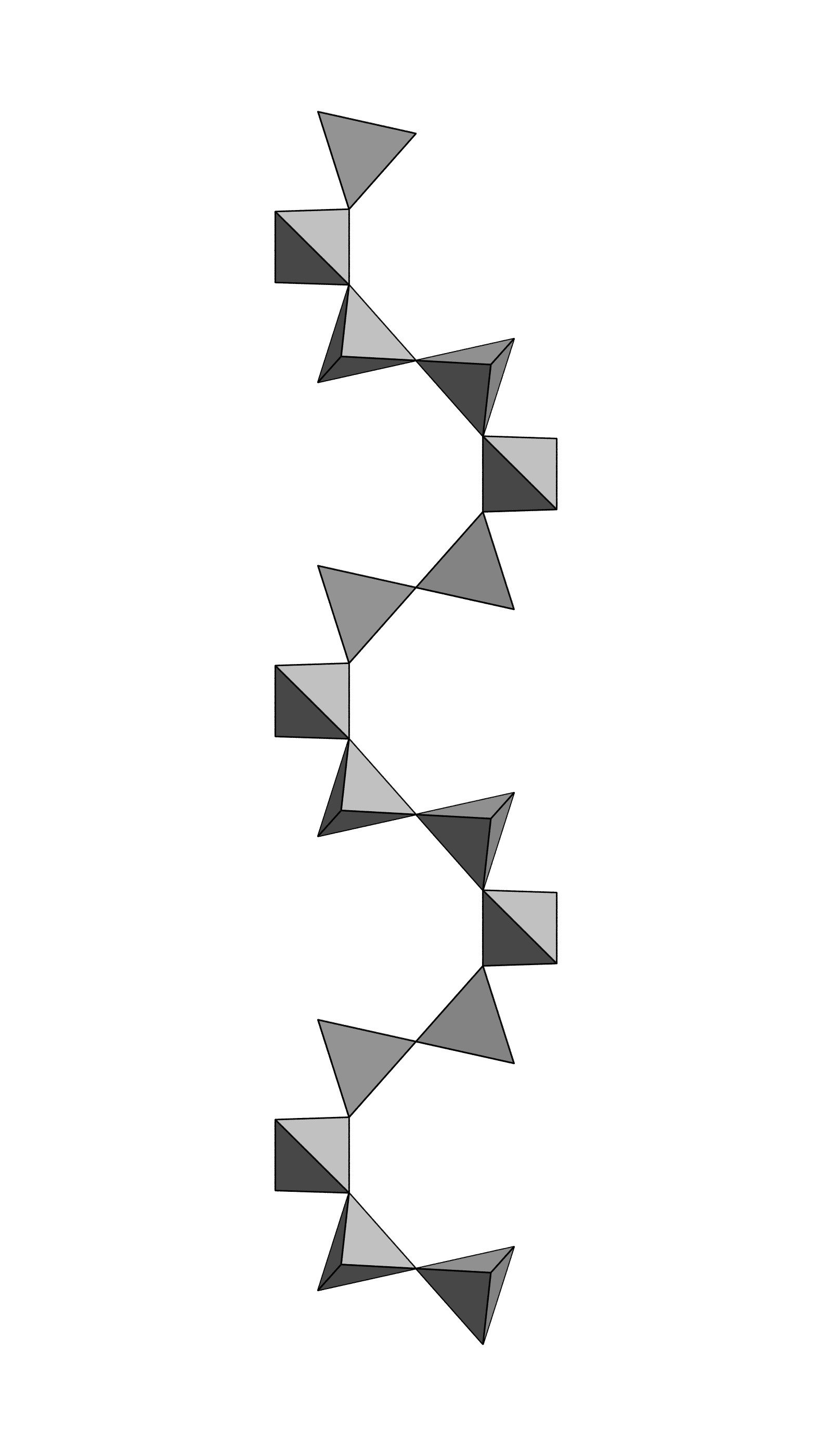 Unbranched sechser single chain of Stokesite Data from: Vorma, A. (1963): Crystal structure of stokesite, CaSnSi3O9*2H2O, Mineralogical Magazine 33, pp. 615-617 Calculation of image data: Larry W. Finger, Martin Kroeker, and Brian H. Toby, DRAWxtl, an open-source computer program to produce crystal-structure drawings, J. Applied Crystallography V40, pp. 188-192, 2007 Rendering: POVRAY